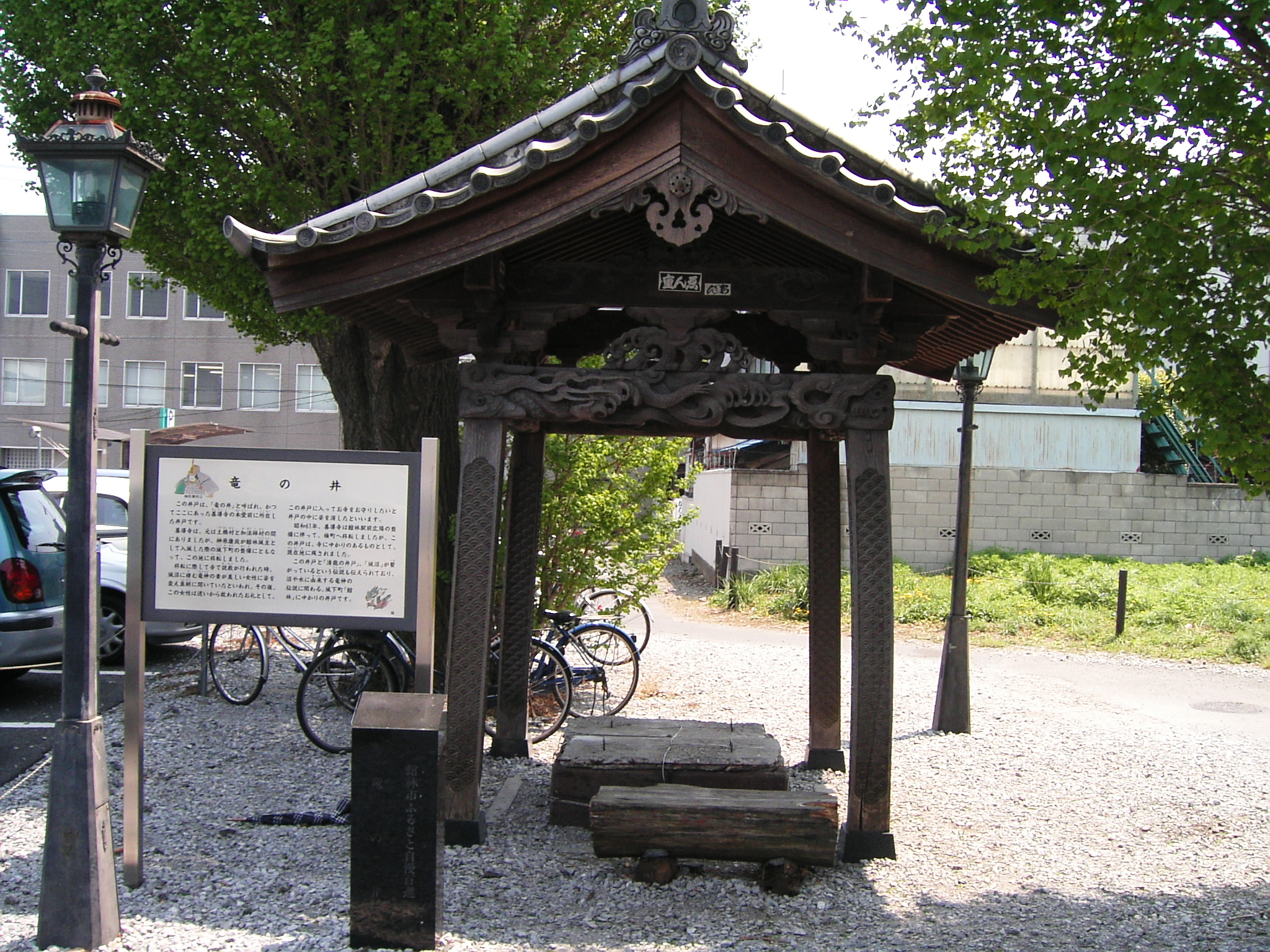 Tatsu-no-i(dragon's well) in Tatebayashi,Gunma Prefecture,Japan